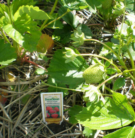 Strawberry plants and tag indicating the variety (Sequoia).